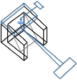 pc-AFM module with conducting mirror used to deflect illumination laser